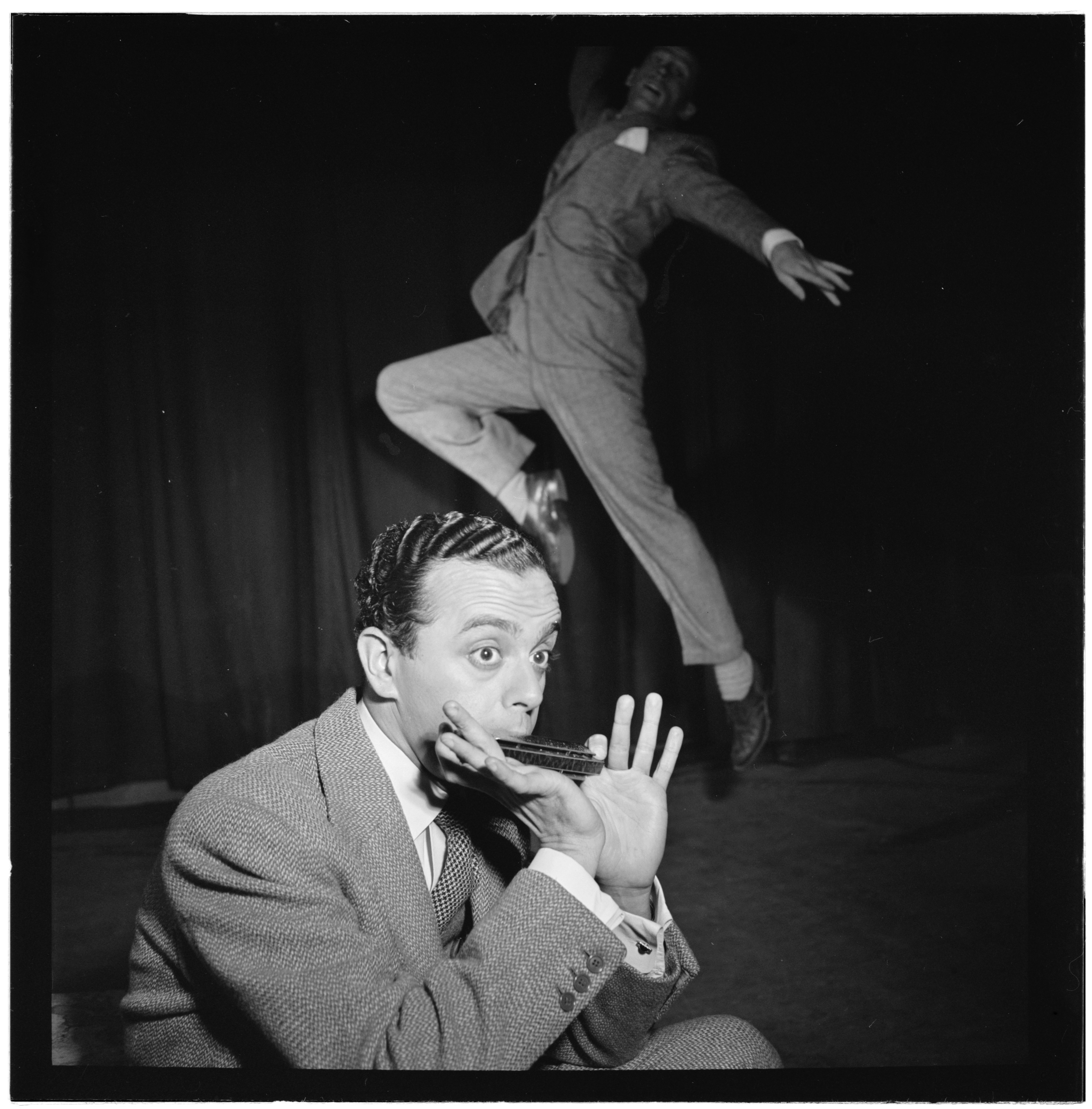 [Portrait of Larry Adler and dancer Paul Draper, City Center, New York, N.Y., ca. Jan. 1947]